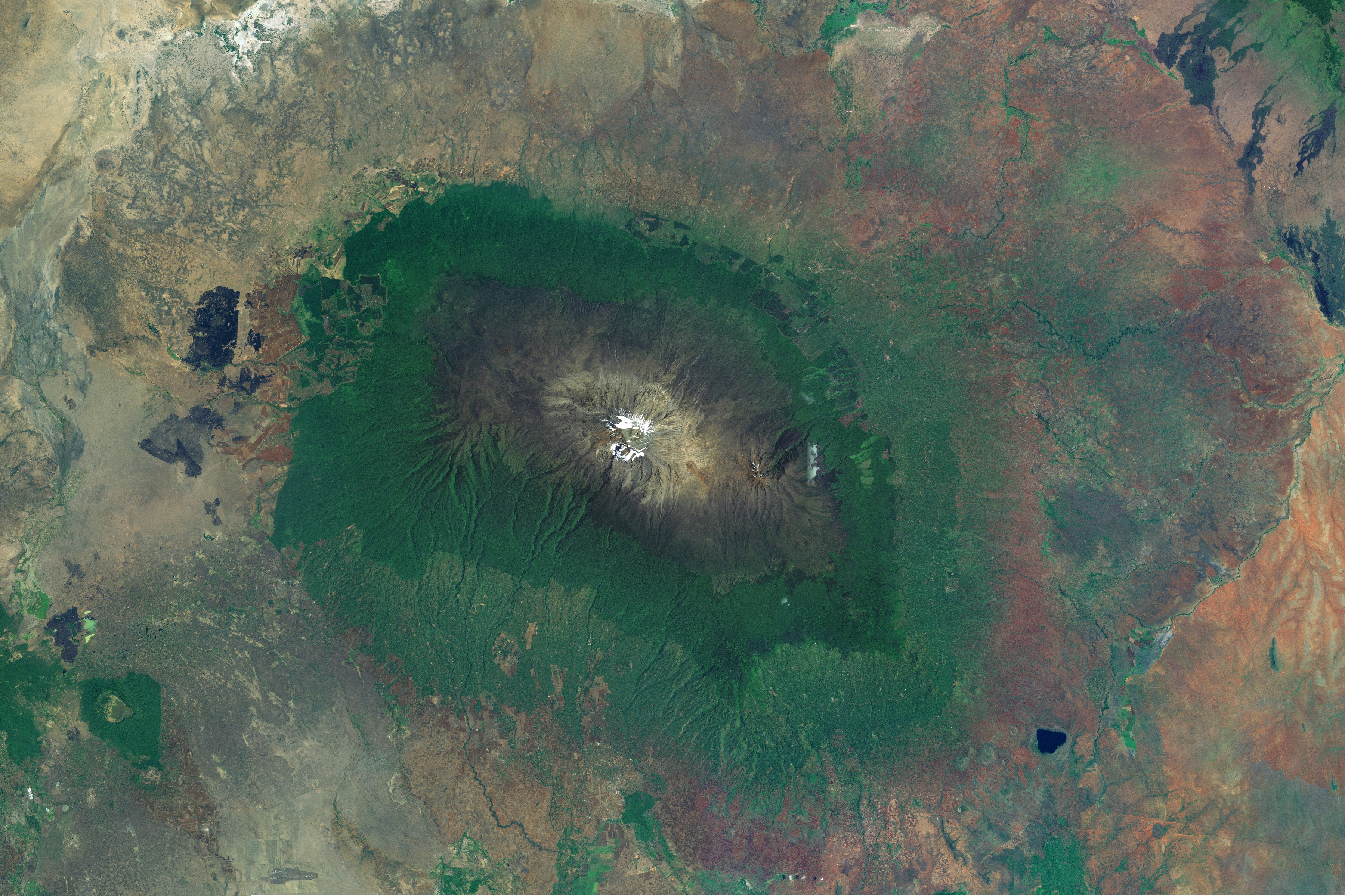 Mount Kilimanjaro, viewed from space.